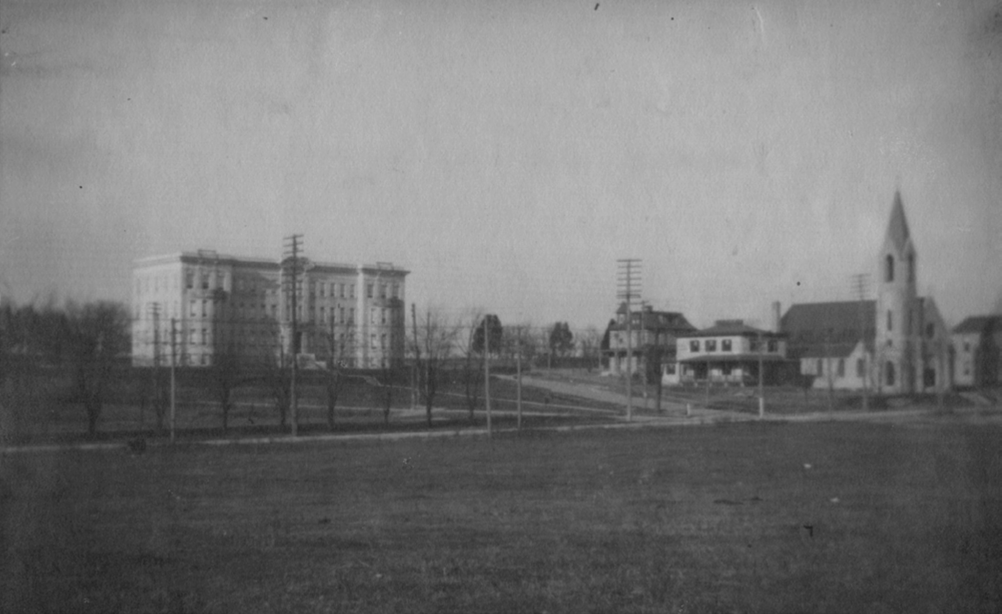 The future site of Tenley Circle in Washington, D.C. at the intersection of Wisconsin and Nebraska Avenues and Yuma Street.